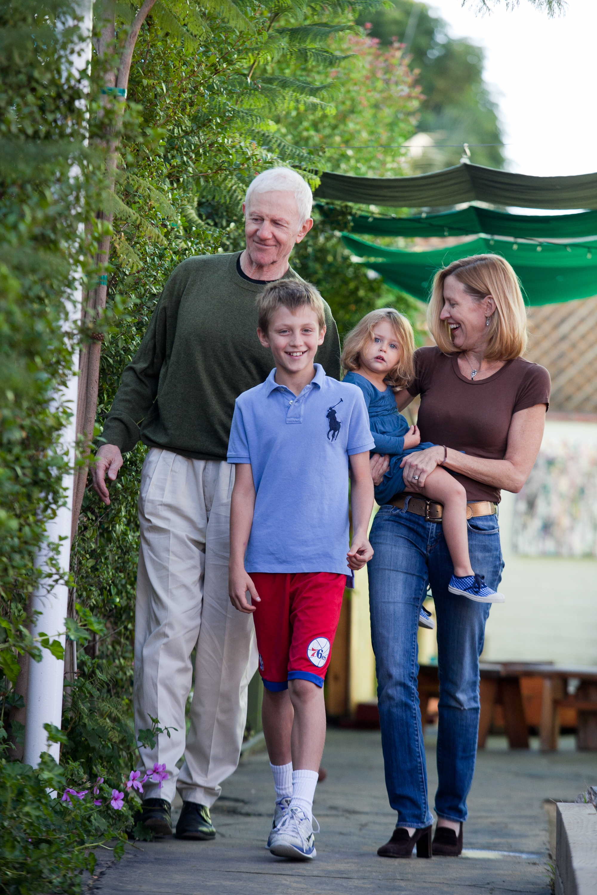 Raymond J. Barry, his wife Robyn Mundell, and their children Liam and Manon.